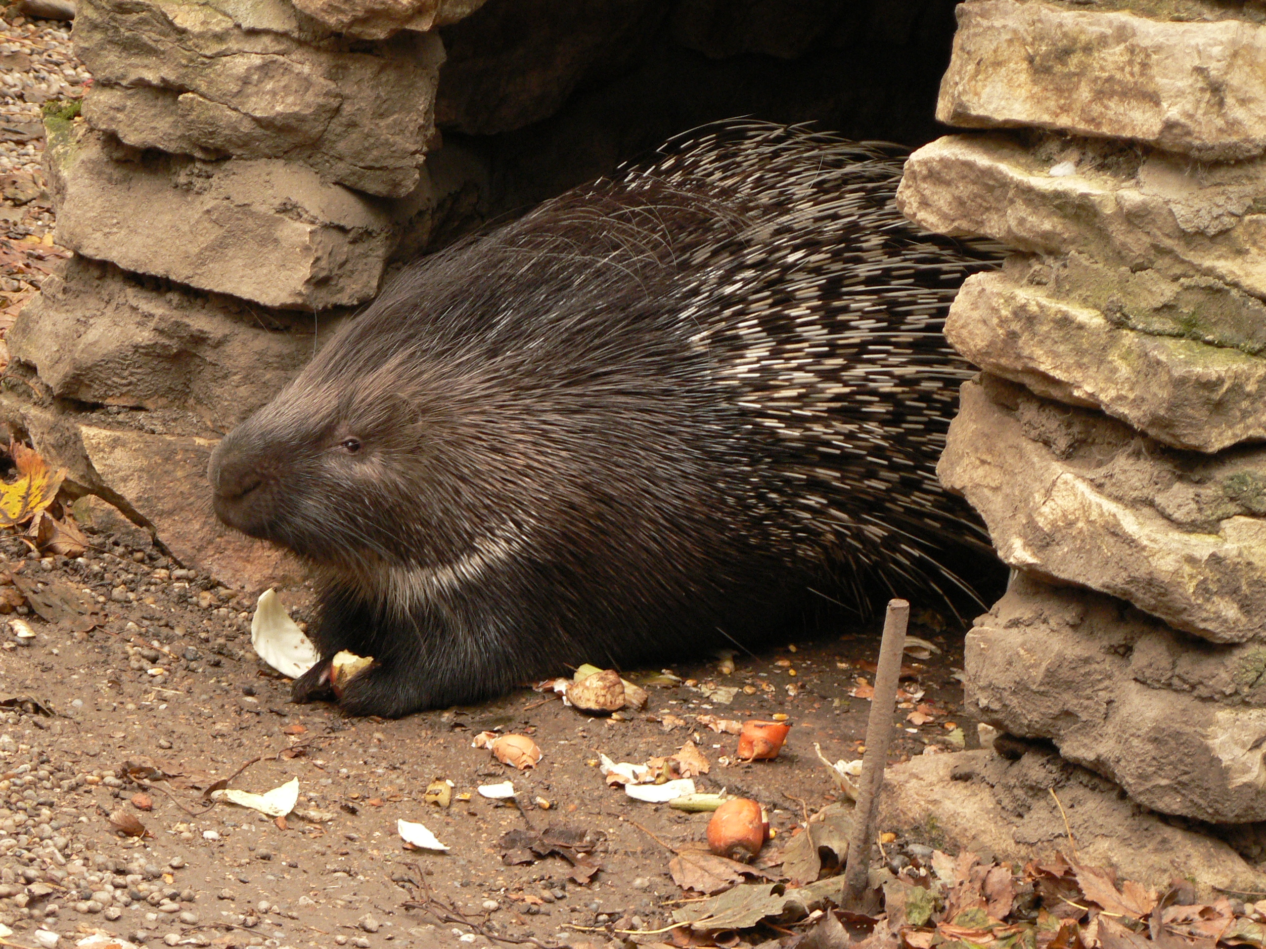 African porcupine (Hystrix_cristata) in captivity. Image taken in Kittenberger Kálmán Zoo, Veszprém